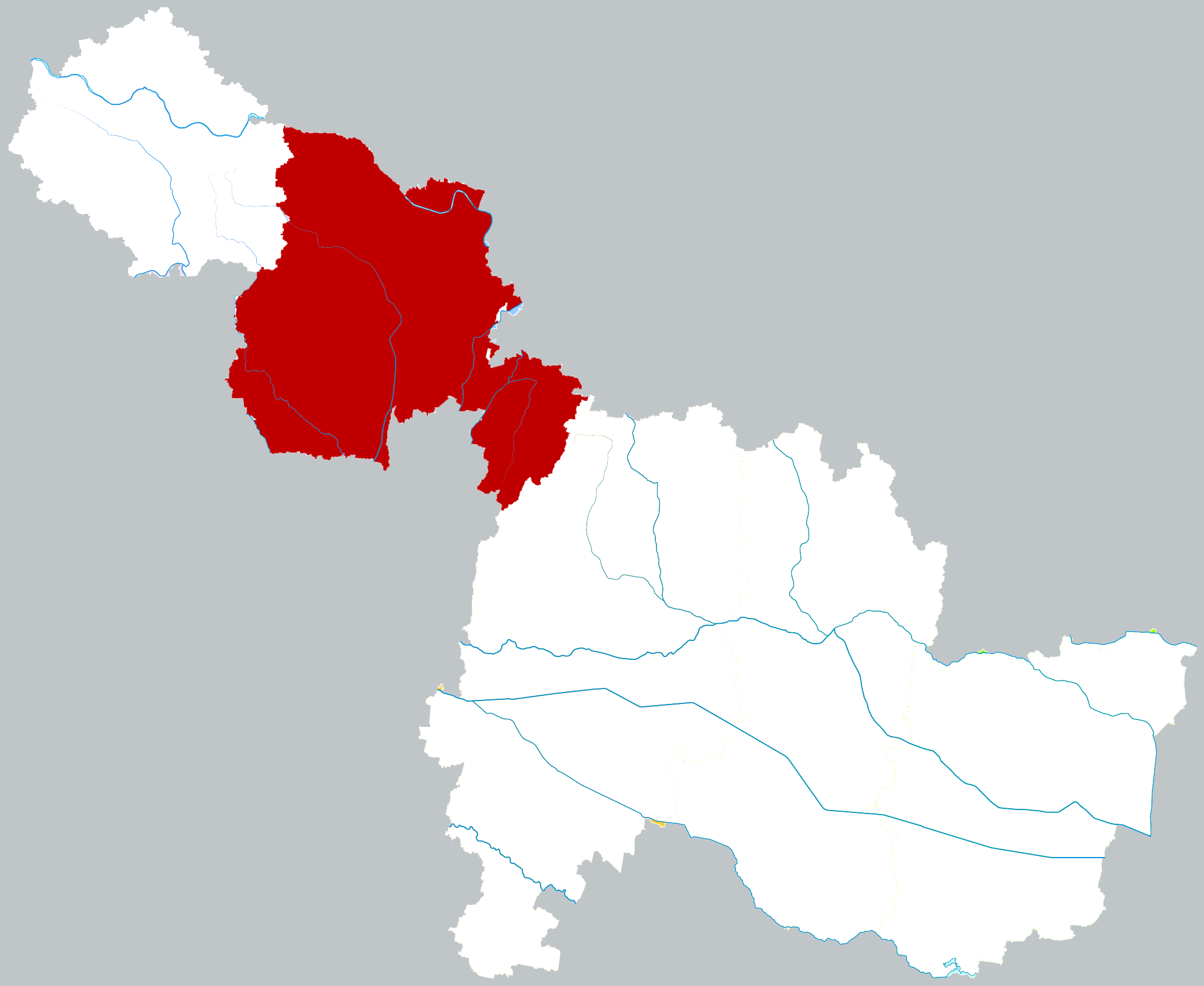 Location of Xiao county in Suzhou city, Anhui province, China